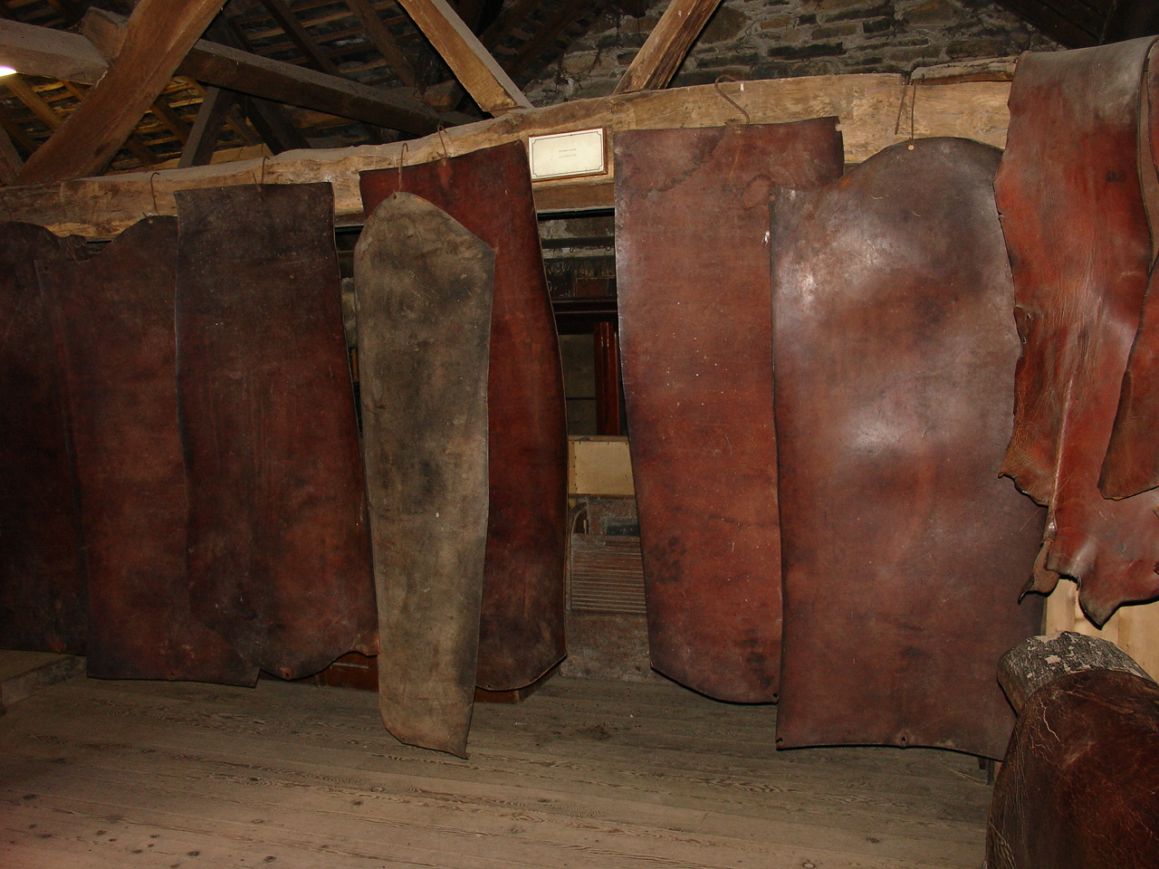 St. Fagans, National Museum Wales (Cardiff, UK): Tannery (drying skins)